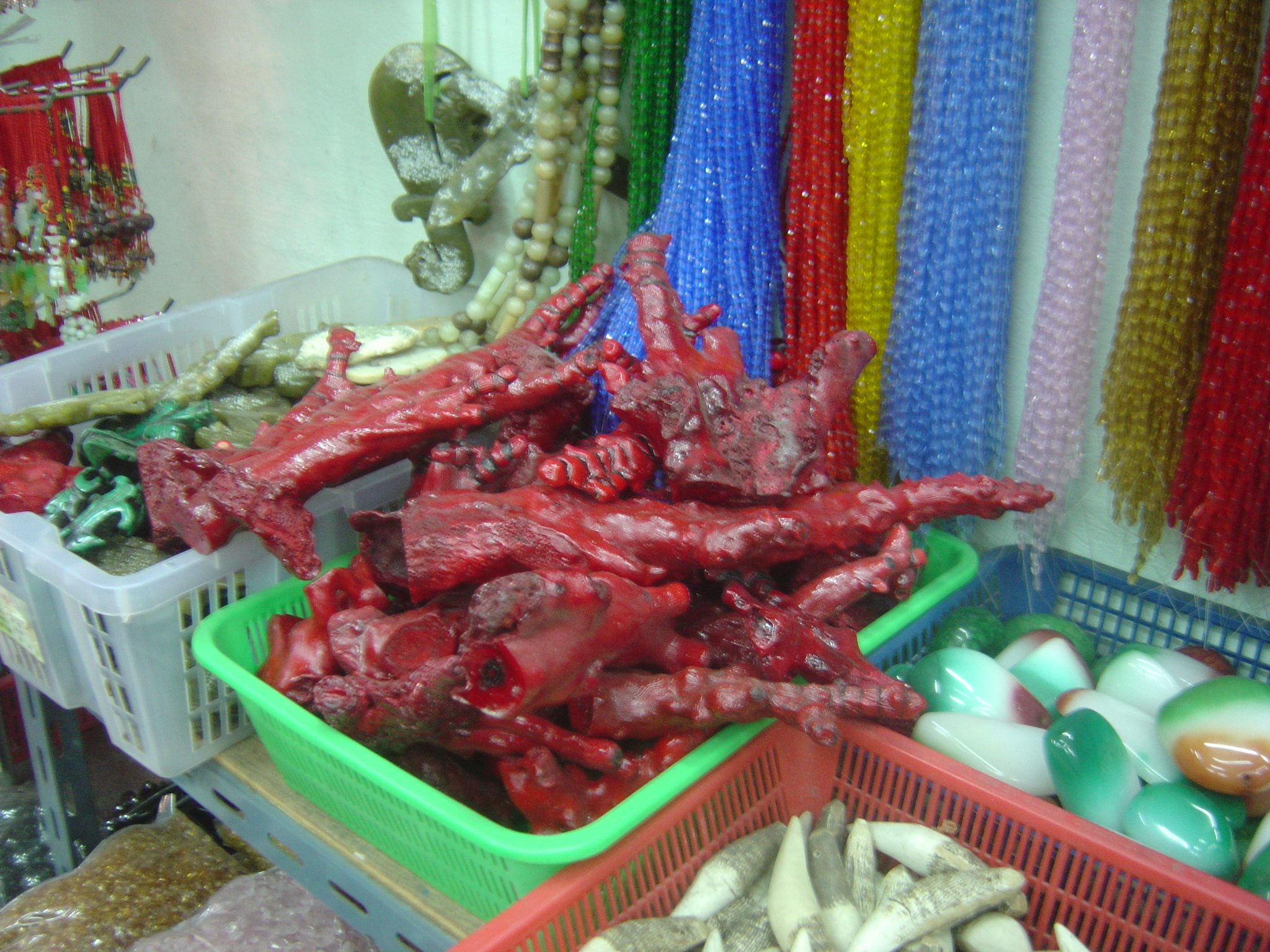 Fake coral made in China, and sold in a market in Bangkok - Thailand in 2011 The saler has confirmed me, that he was importing this product from China, where it was made.